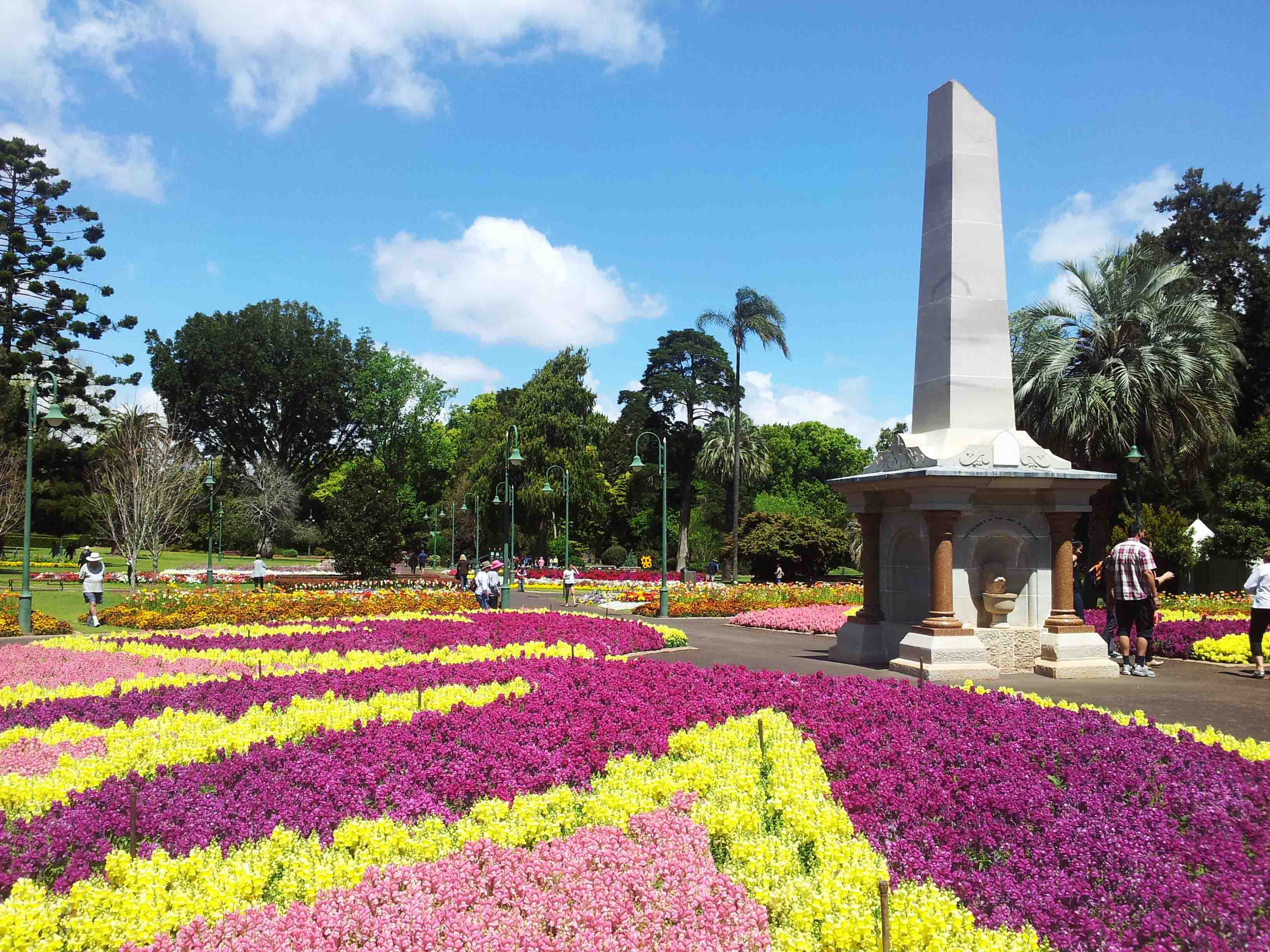 Alfred Thomas Memorial, Queen's Park, Toowoomba, Queensland, Australia